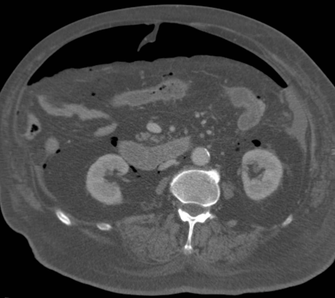 Pneumoperitoneum from an insufficient intestinal anastomosis.